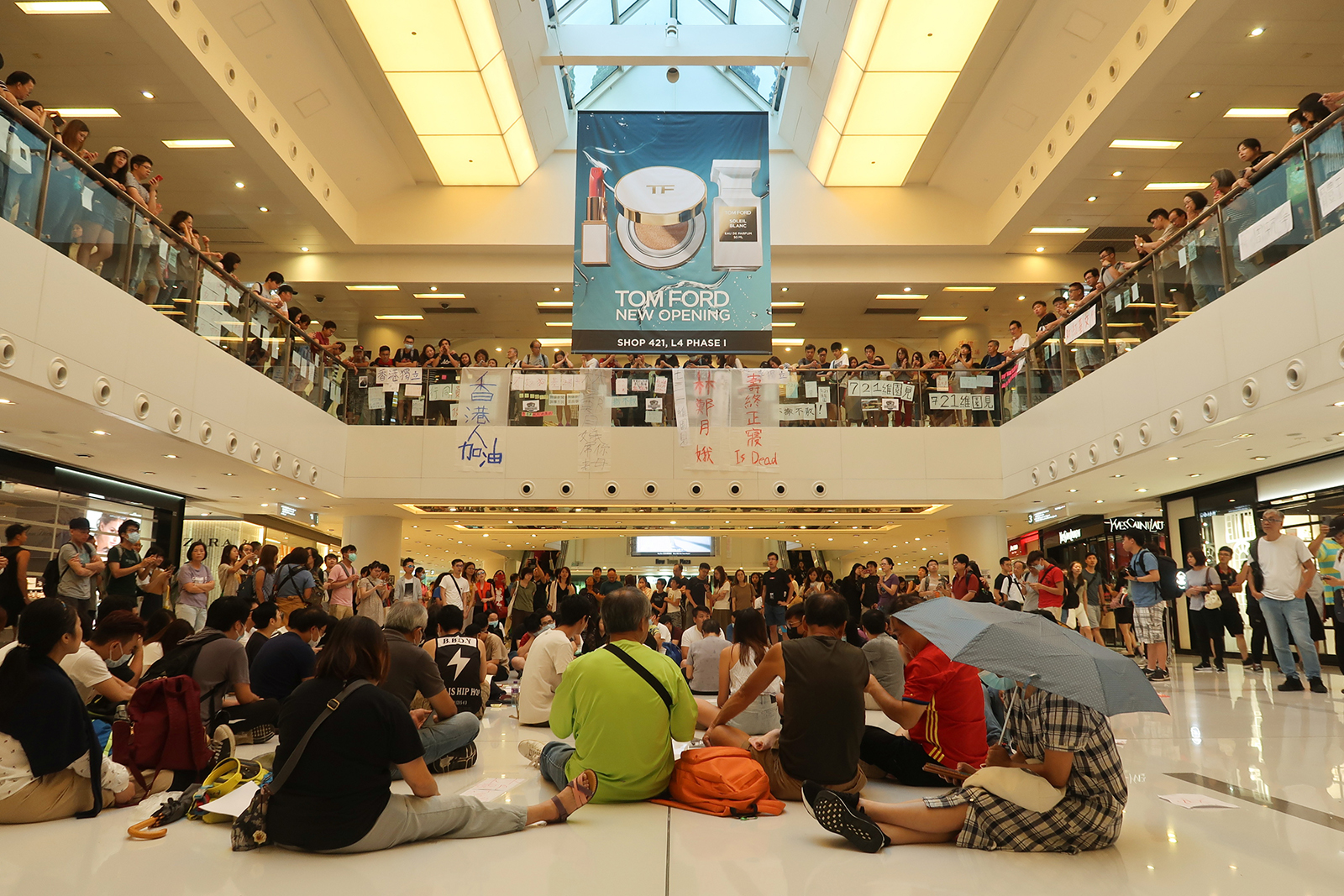 Protest in New Town Plaza Footbridge gallery